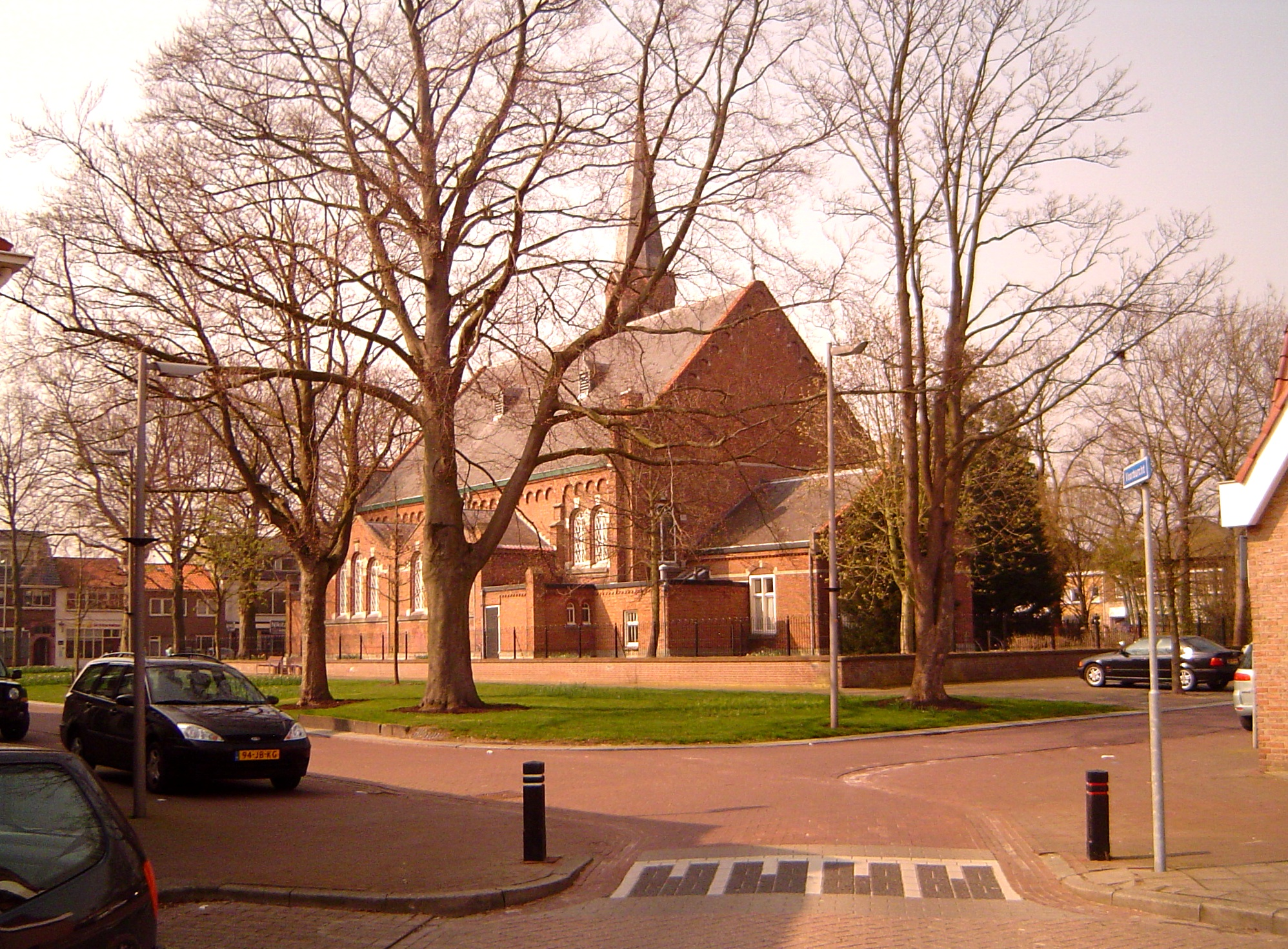 "Plein" at Zaamslag.